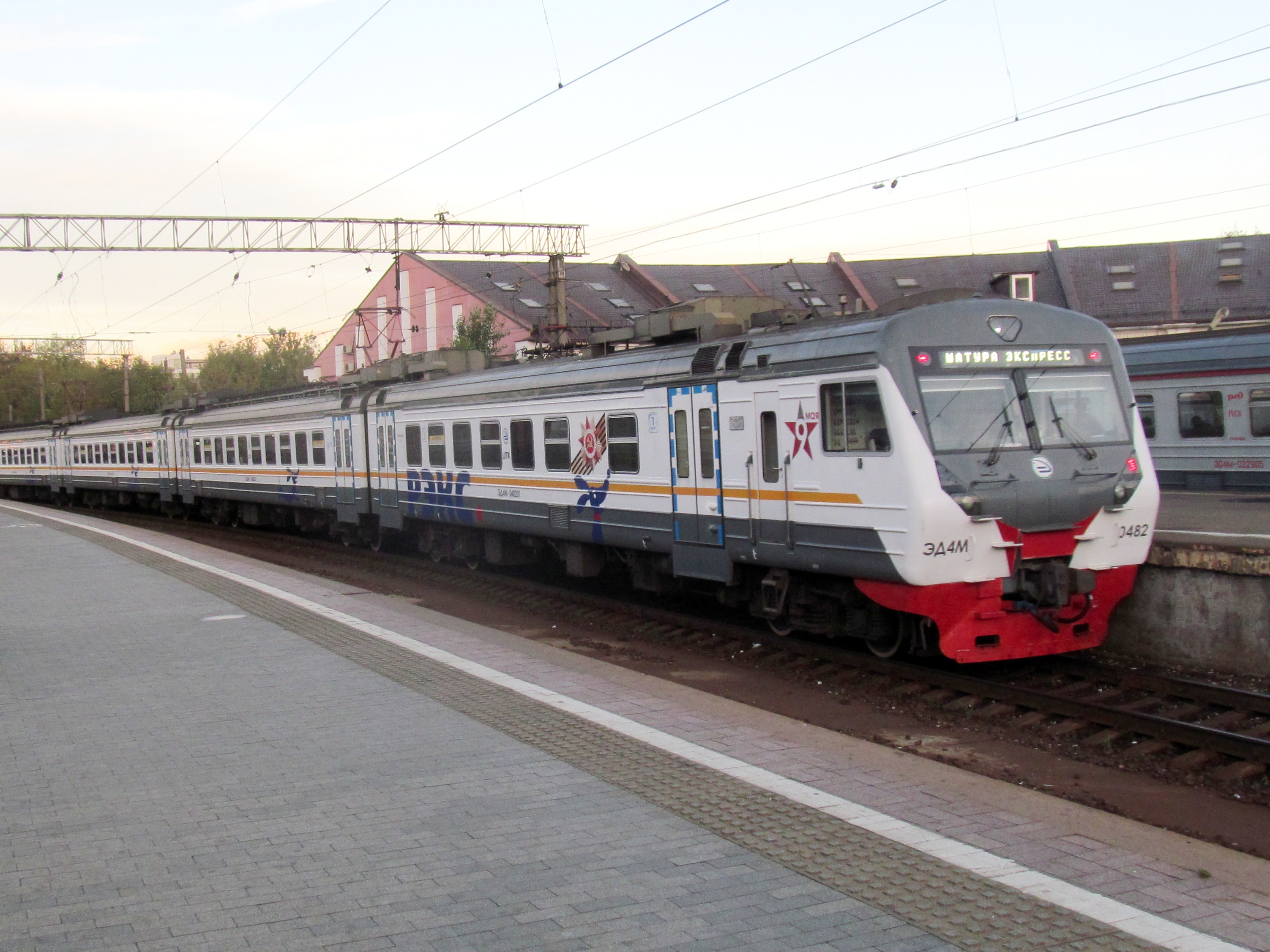 ED4M-0482 EMU in combined "Nashe Podmoscov'e" and REKS livery at Moskva-Passenger-Kazanskaya station